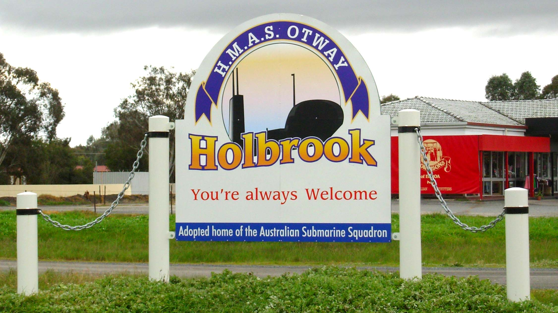 New HMAS Otway Welcome to Holbrook sign. Erected in 2007.